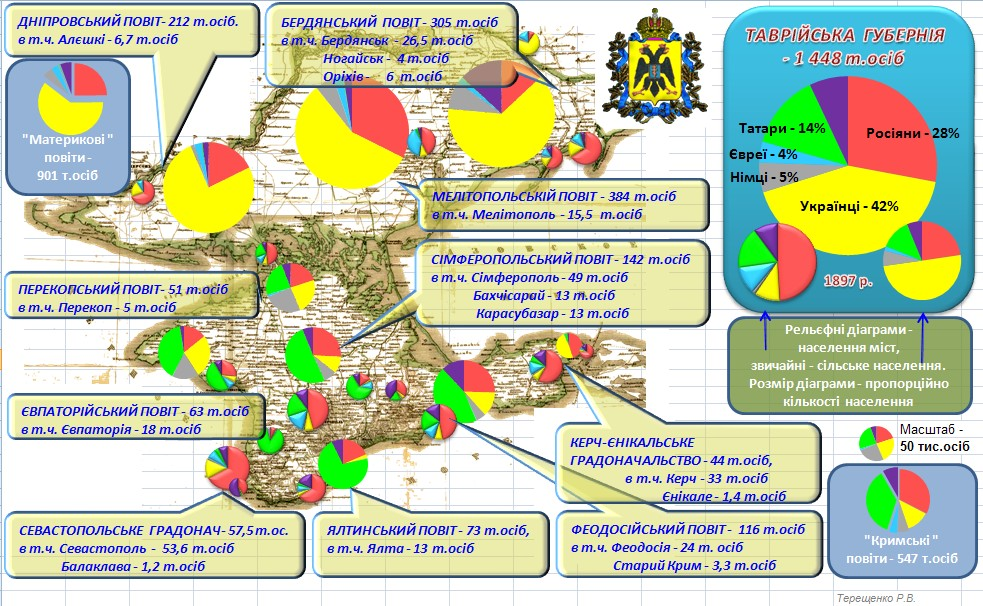 Main ethnic groups in Tavricheskaya gubernia of Russian empire in 1897.